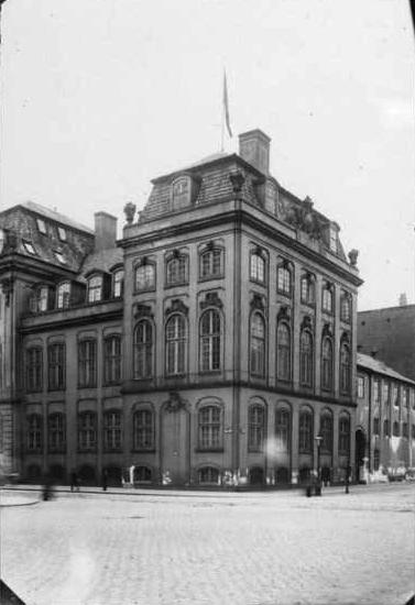 Dehns Palæ in Bredgade, Copenhagen.